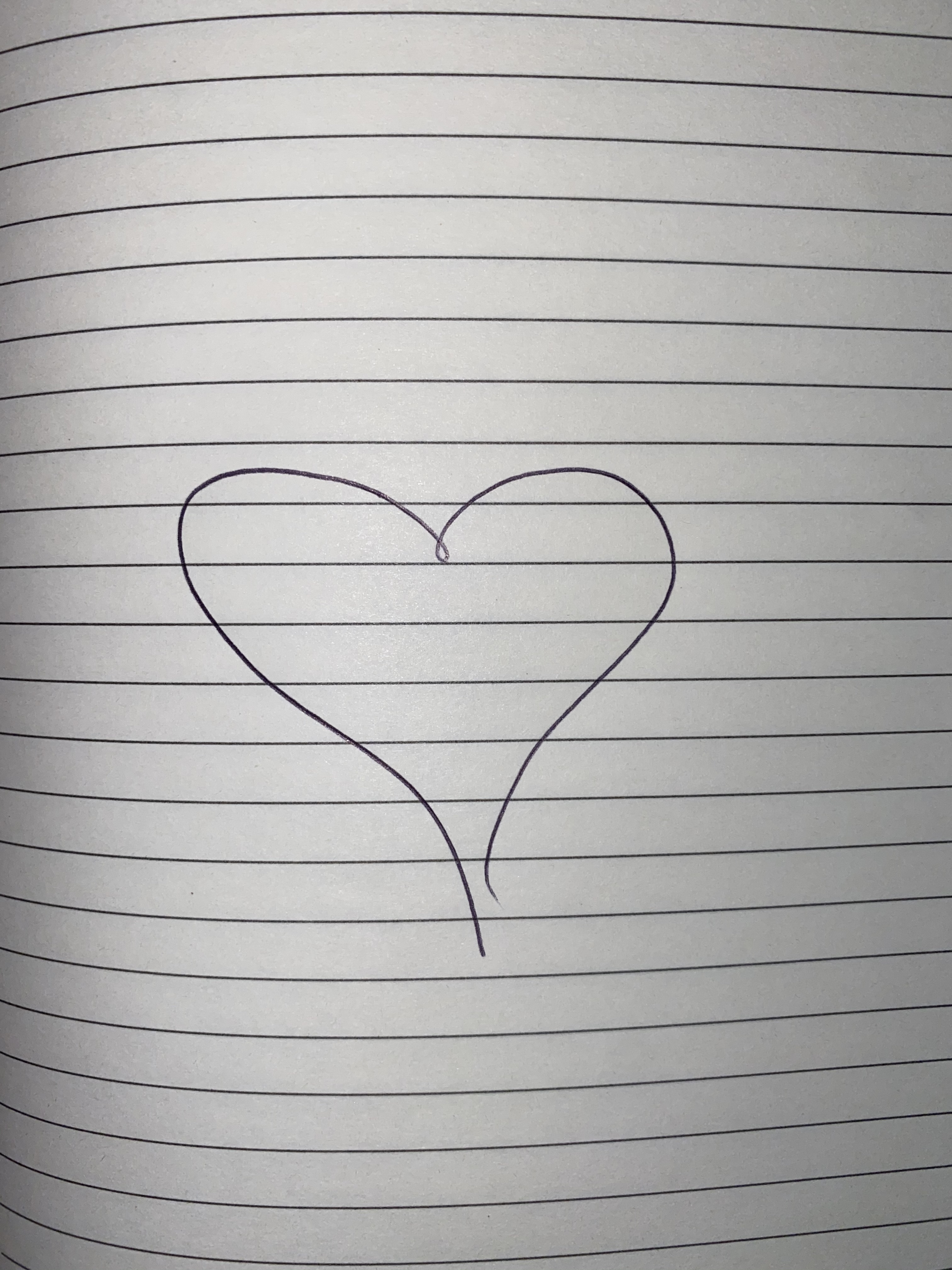 A drawn love heart on paper